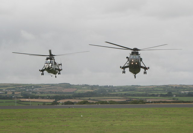 Sea King helicopters at RNAS Culdrose